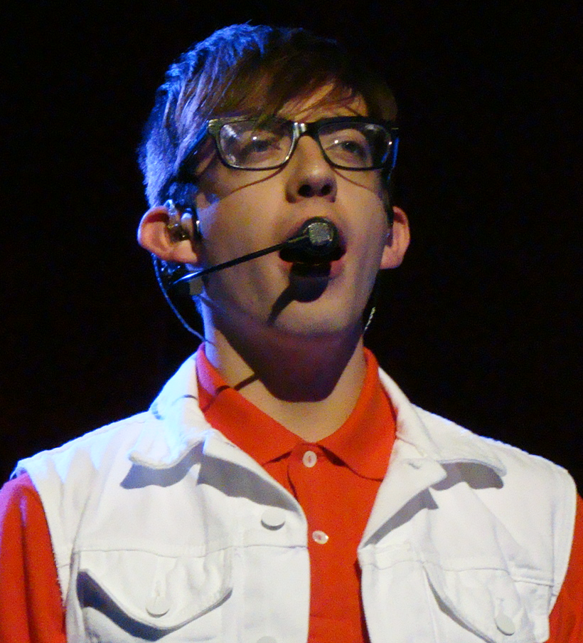 Kevin McHale, in character as Artie Abrams on the Glee Live! In Concert! 2011 tour.